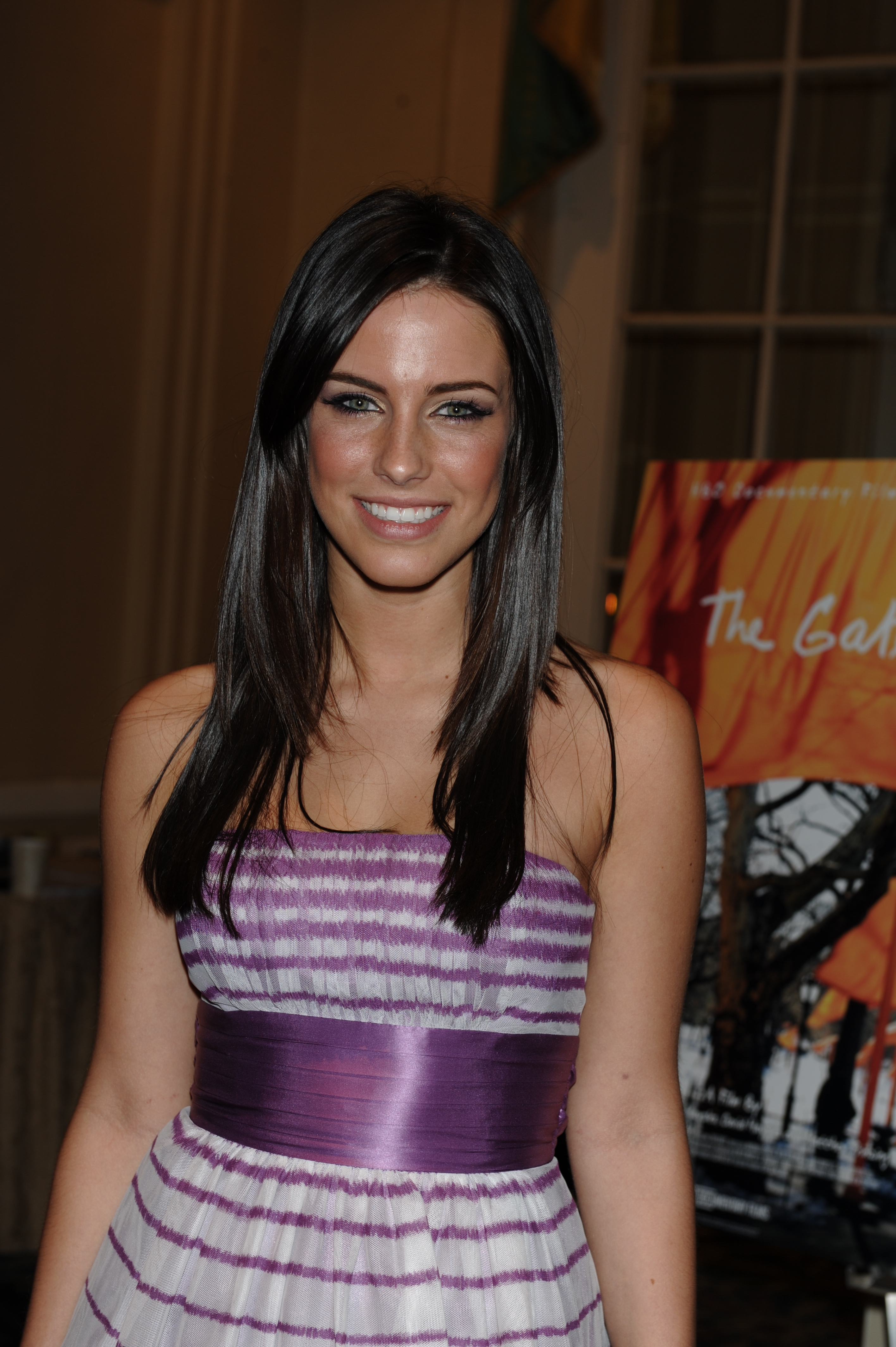 PHOTO CREDIT: ANDERS KRUSBERG / PEABODY AWARDS Jessica Lowndes 68th Annual Peabody Awards Luncheon Waldorf=Astoria Hotel New York, NY USA May 18, 2009